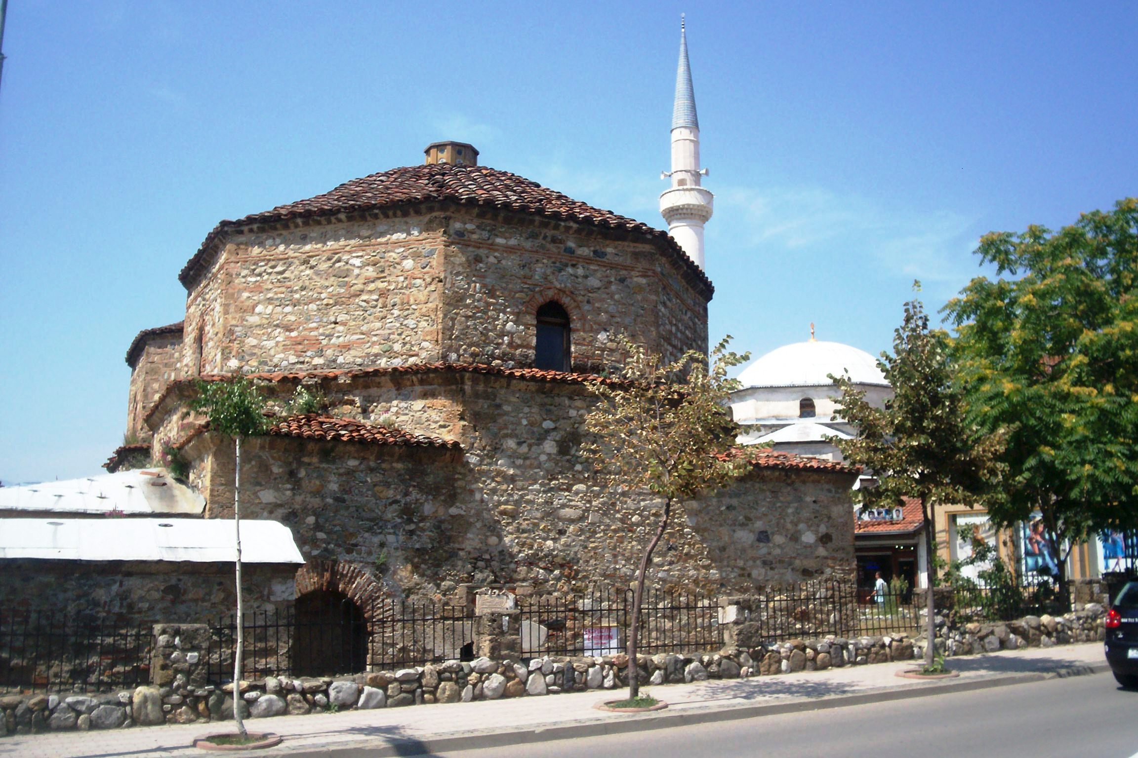 An old Orthodox Church and mosque in Prizren.